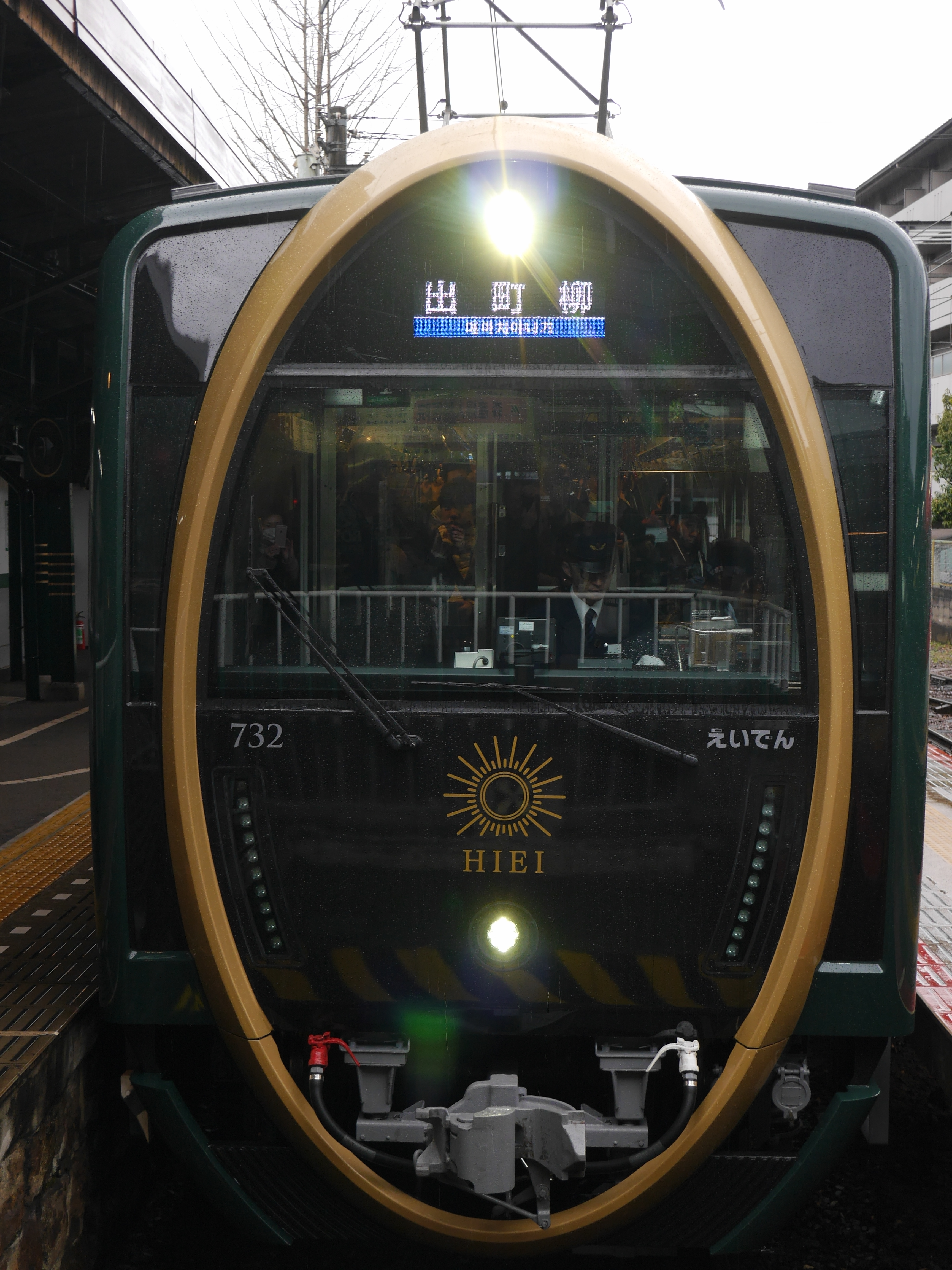 Front view of Eizan Electric Railway "Hiei"